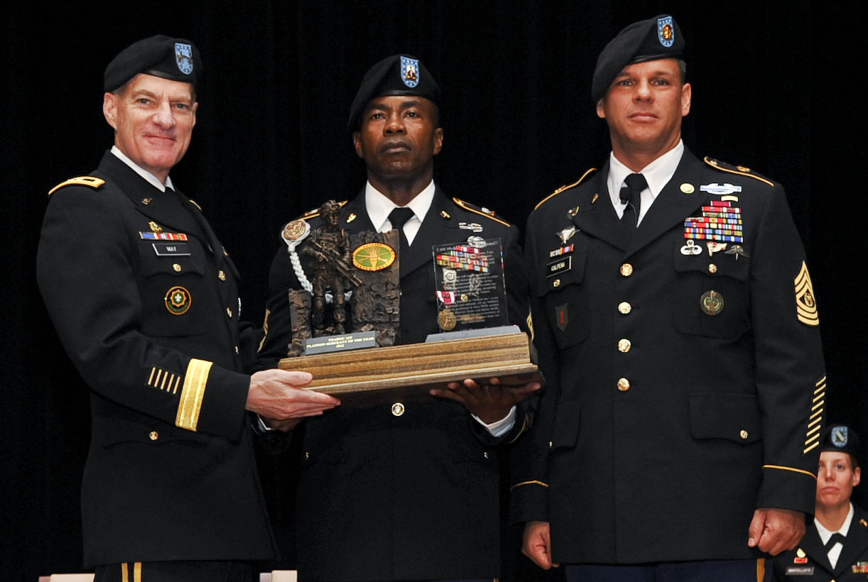 Sgt. 1st Class Delroy Barnett (center), an advanced individual training platoon sergeant from the 32nd Medical Brigade at Fort Sam Houston, Texas, receives the 2012 AIT Platoon Sergeant of the Year award from Maj. Gen. Bradley W. May (left), Initial Military Training Center of Excellence deputy commanding general; and IMT Command Sgt. Maj. John R. Calpena during a ceremony at Fort Eustis, Va., Sept. 28, 2012. Barnett was selected from among nine platoon sergeants that competed for the title in a week-long competition.